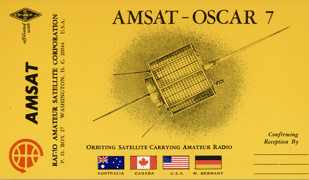 Blank QSL card from AMSAT, used to confirm SWL reception of OSCAR 7 satellite (1974).